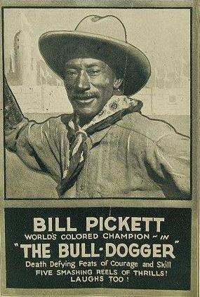 Bill Pickett in a handbill advertising the 1921 film, "The Bull-Dogger," starring Bill Pickett, "the world's colored champion" in "death-defying feats of courage and skill," released by The Norman Film Manufacturing Company. The NFMC, the creator of the photo of Bill Pickett, is no longer in business.